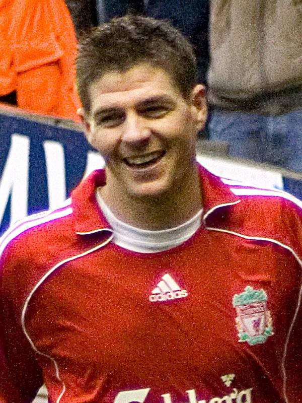 The English association football player Steven Gerrard